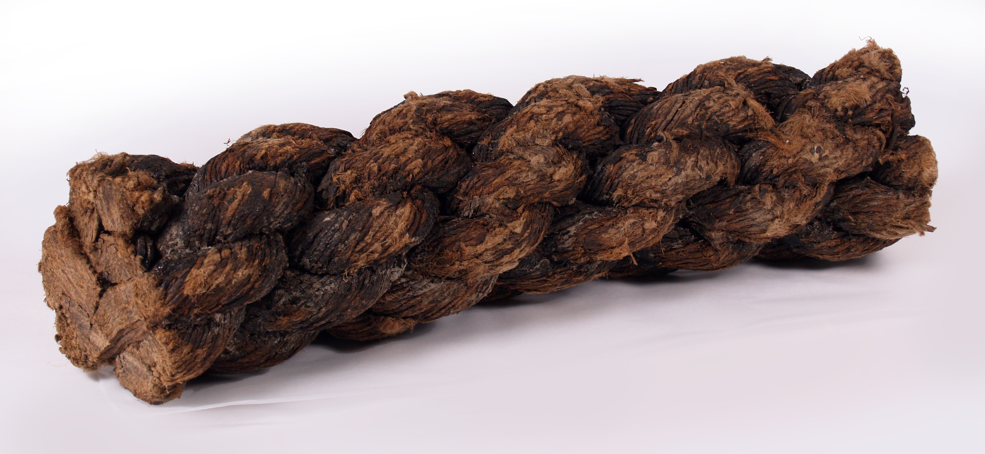 Rope fragment found on board the carrack Mary Rose.